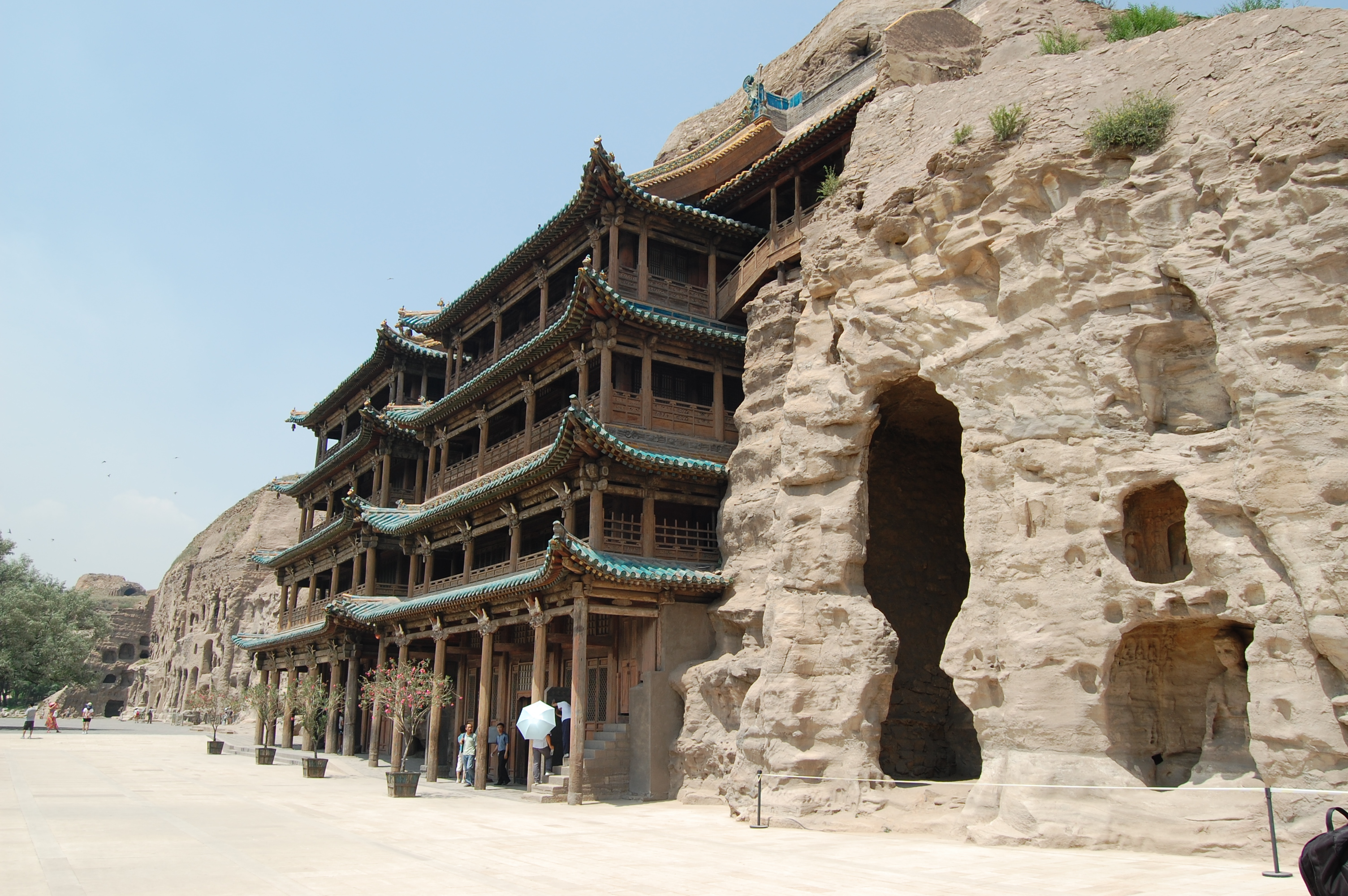 Building proctecing some of caves of Yungang Grottoes, Datong, China